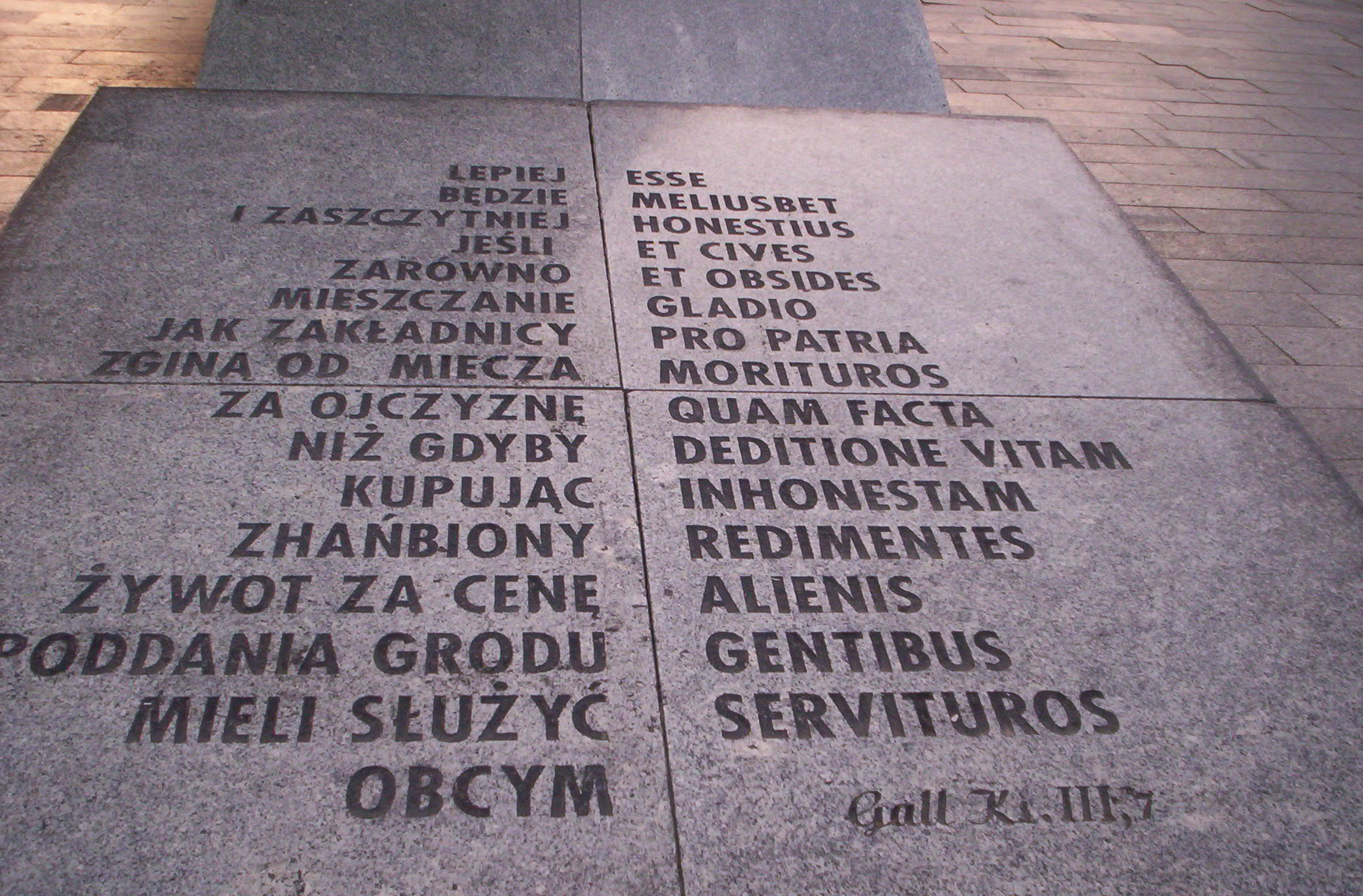 Children of Głogów monument in Głogów. Picture taken on April 24, 2005 by Paweł Dembowski